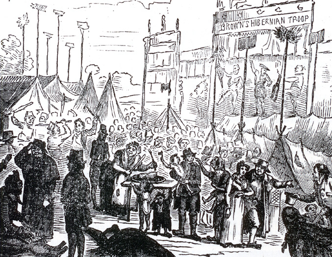 Drawing of Donnybrook Fair, Dublin, about 1835, from a newspaper of that date.